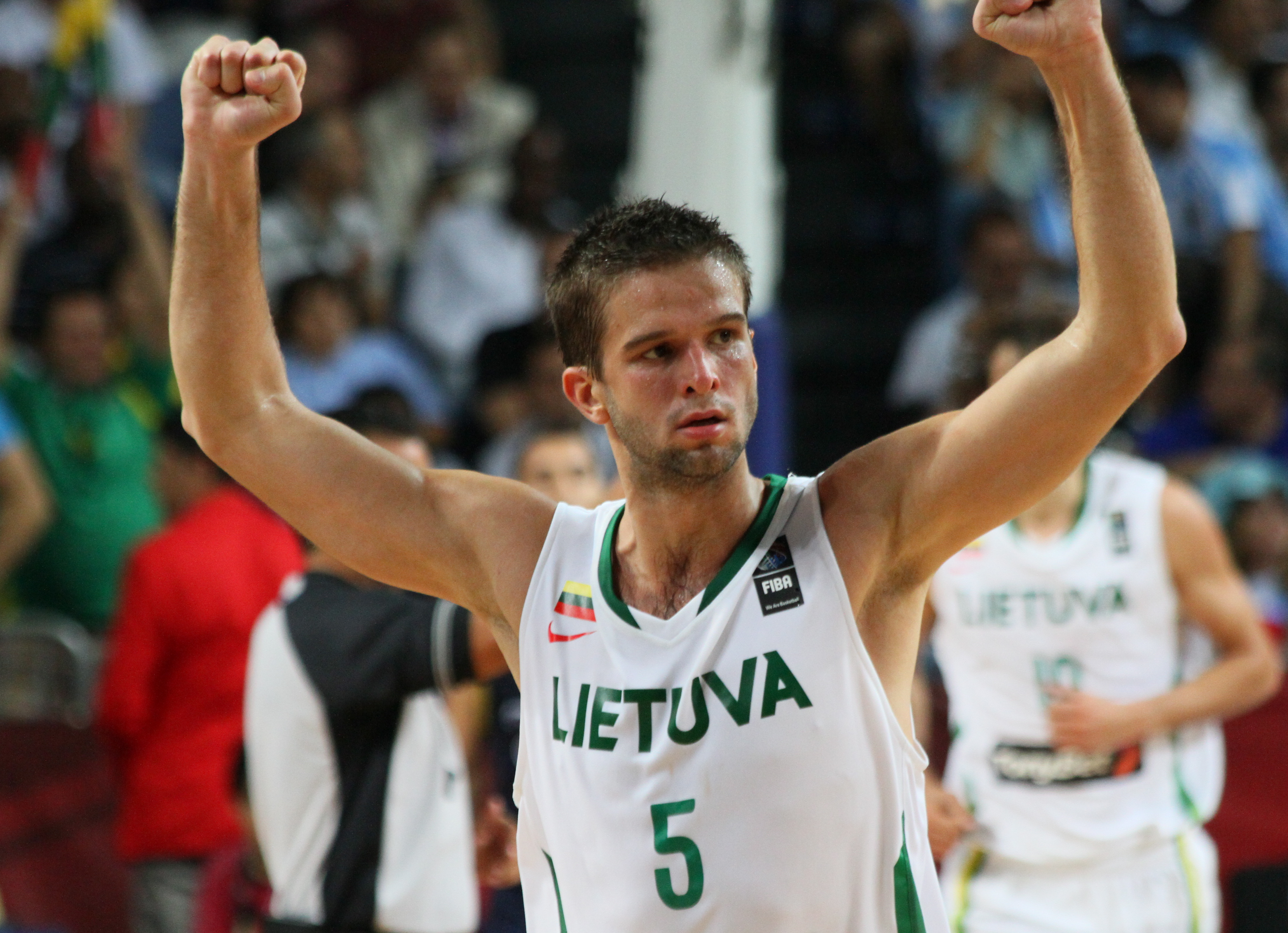 Mantas Kalnietis happy after successful episode.